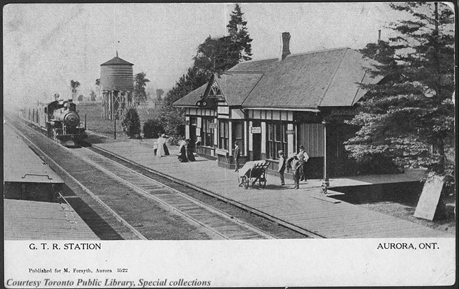 G.T.R. Station, Aurora, Ontario, Canada (1910) Creator: Warwick Bros & Rutter Date: 1910 Identifier: PC-ON 66 Format: Postcard Rights: Public domain Courtesy: Toronto Public Library